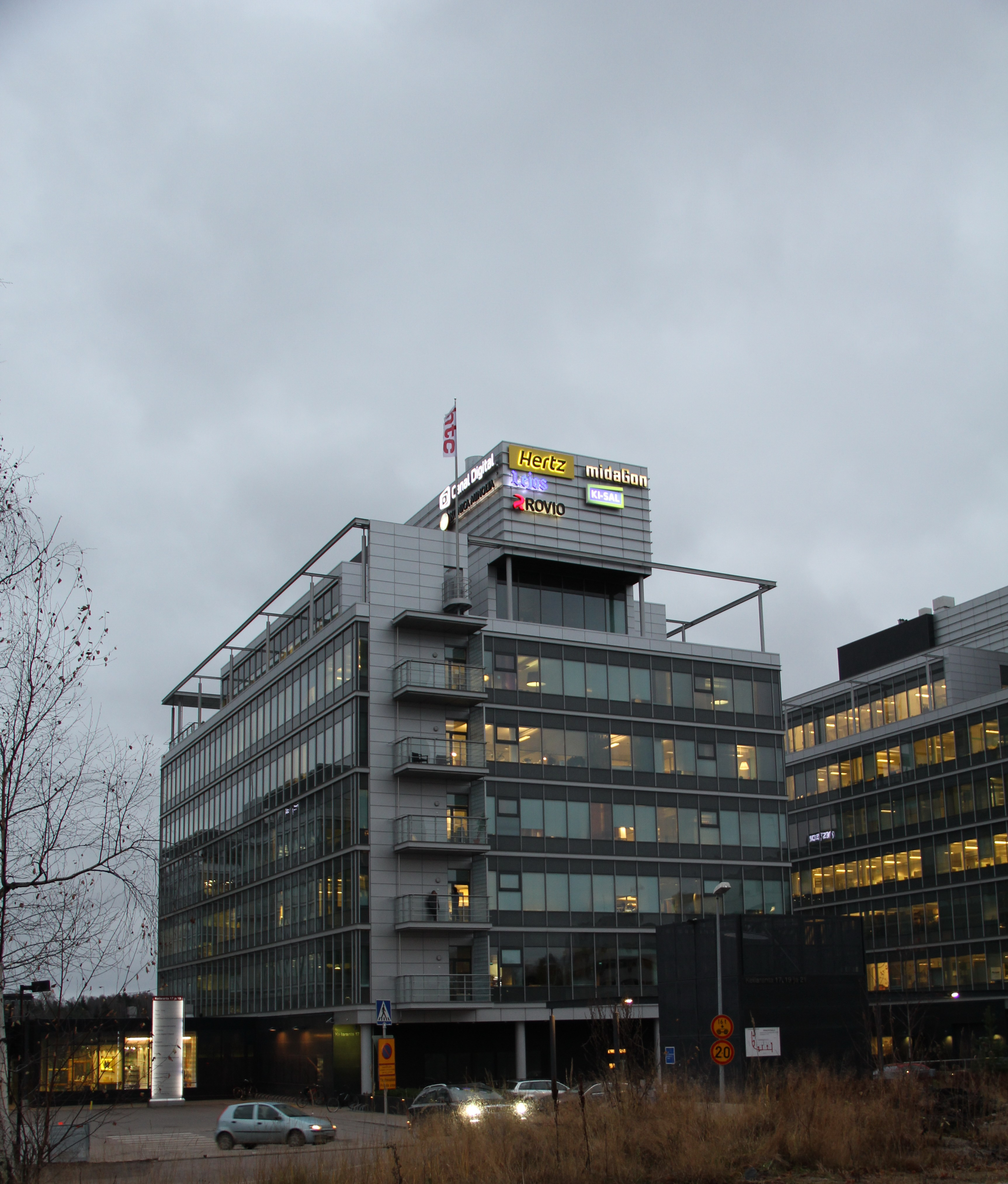 An office building in High Tech Center Keilaniemi, Espoo, Finland. Rovio Entertainment Headquarters and other offices as well. Gullichsen Vormala Architects. The street's name is Keilaranta.